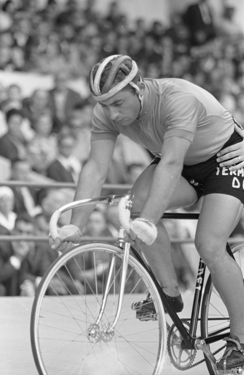 Sante Gaiardoni